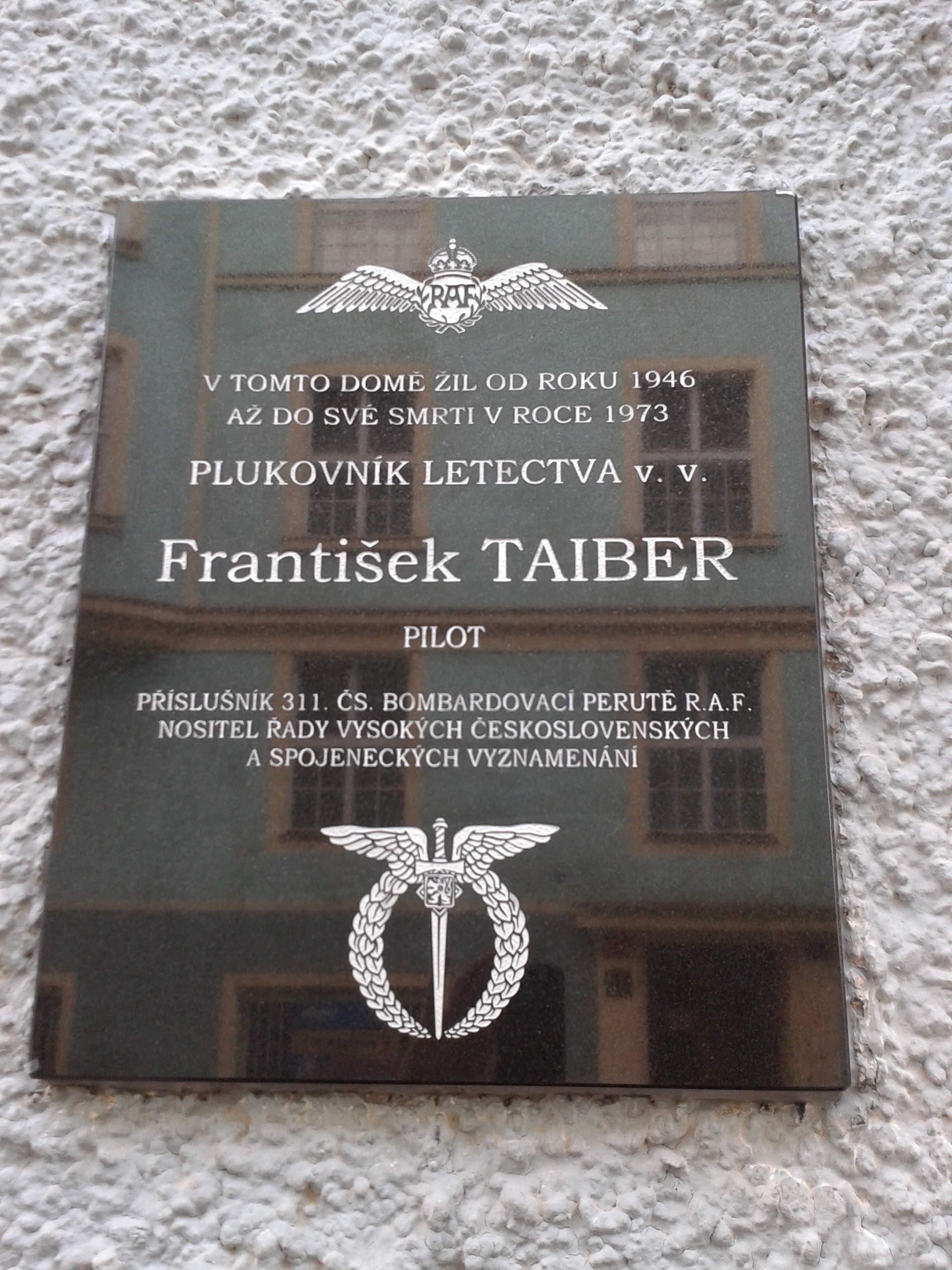 Plaque in memory of František Taiber (1909–73) on a house in the street "Pod Baštami" 276/3, 160 00 Prague 6, Hradčany, Czech Republic. He lived in this house from 1946 until his death in 1973. The plaque was officially unveiled on 11 November 2015. In the Second World War Taiber was bomber pilot with 311 Squadron RAF (Royal Air Force).